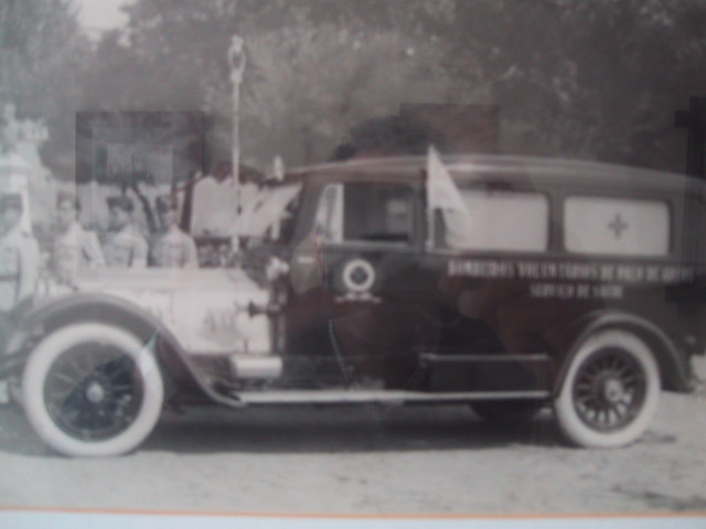 AHBVPA-MeioHistorico7